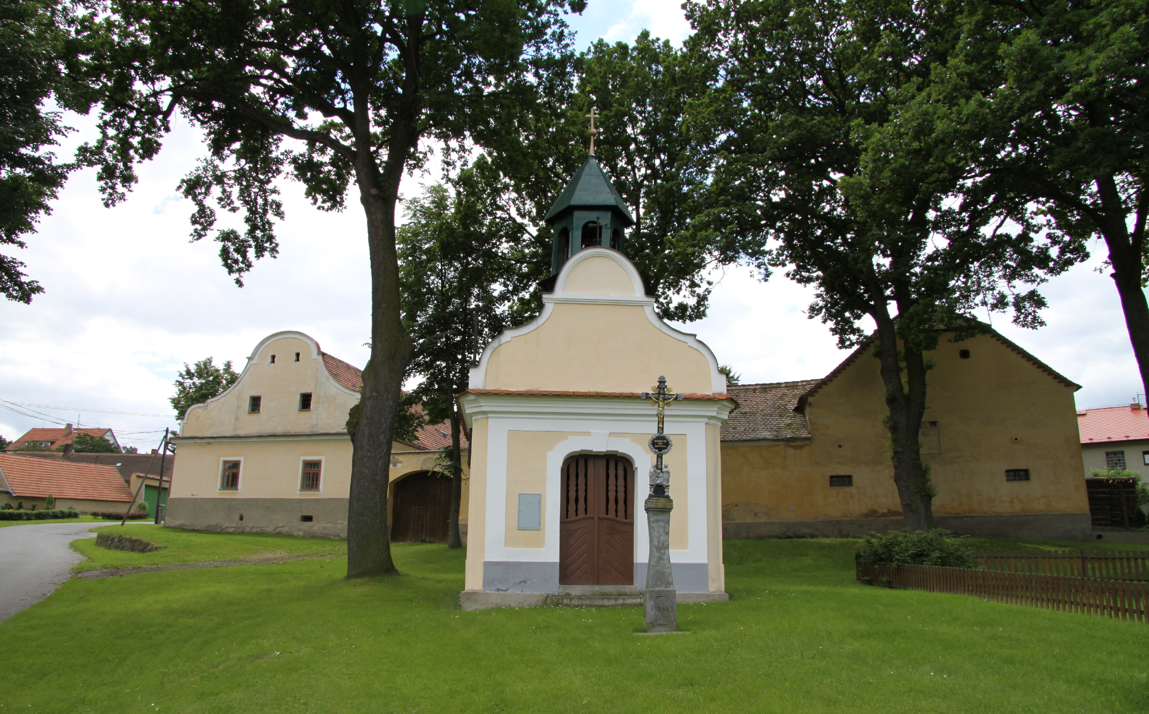 Štěchovice village in Strakonice District, Czech Republic. Chapel This photograph was taken within the scope of the 'Czech Municipalities Photographs' grant.